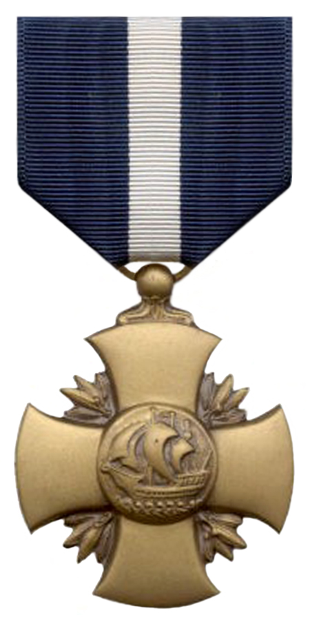 The obverse of Navy Cross